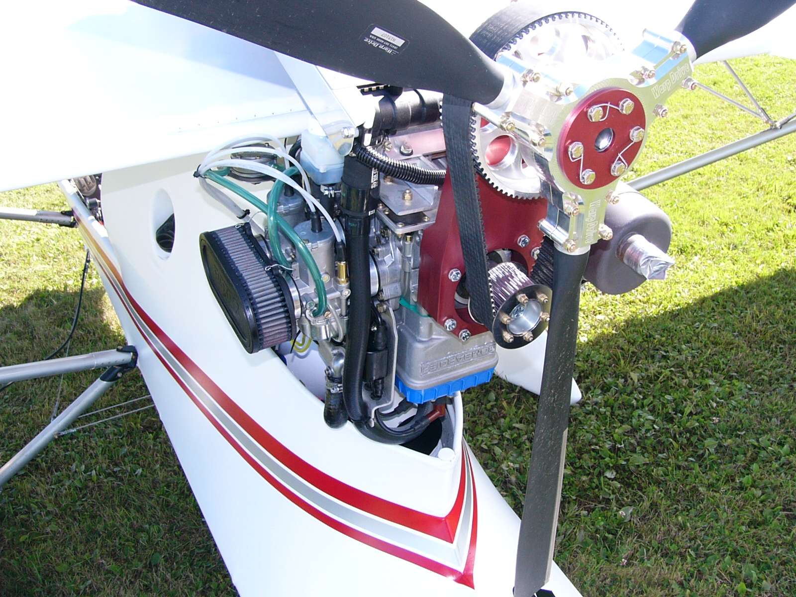 A Rotax 582 engine installed on a Quad City Challenger II ultralight aeroplane at the Carleton Place Fly-in 2006